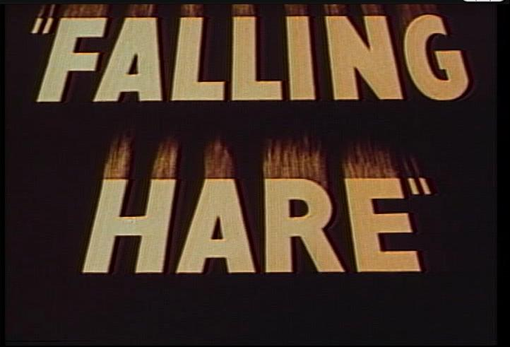 Caption from the public domain short Falling Hare